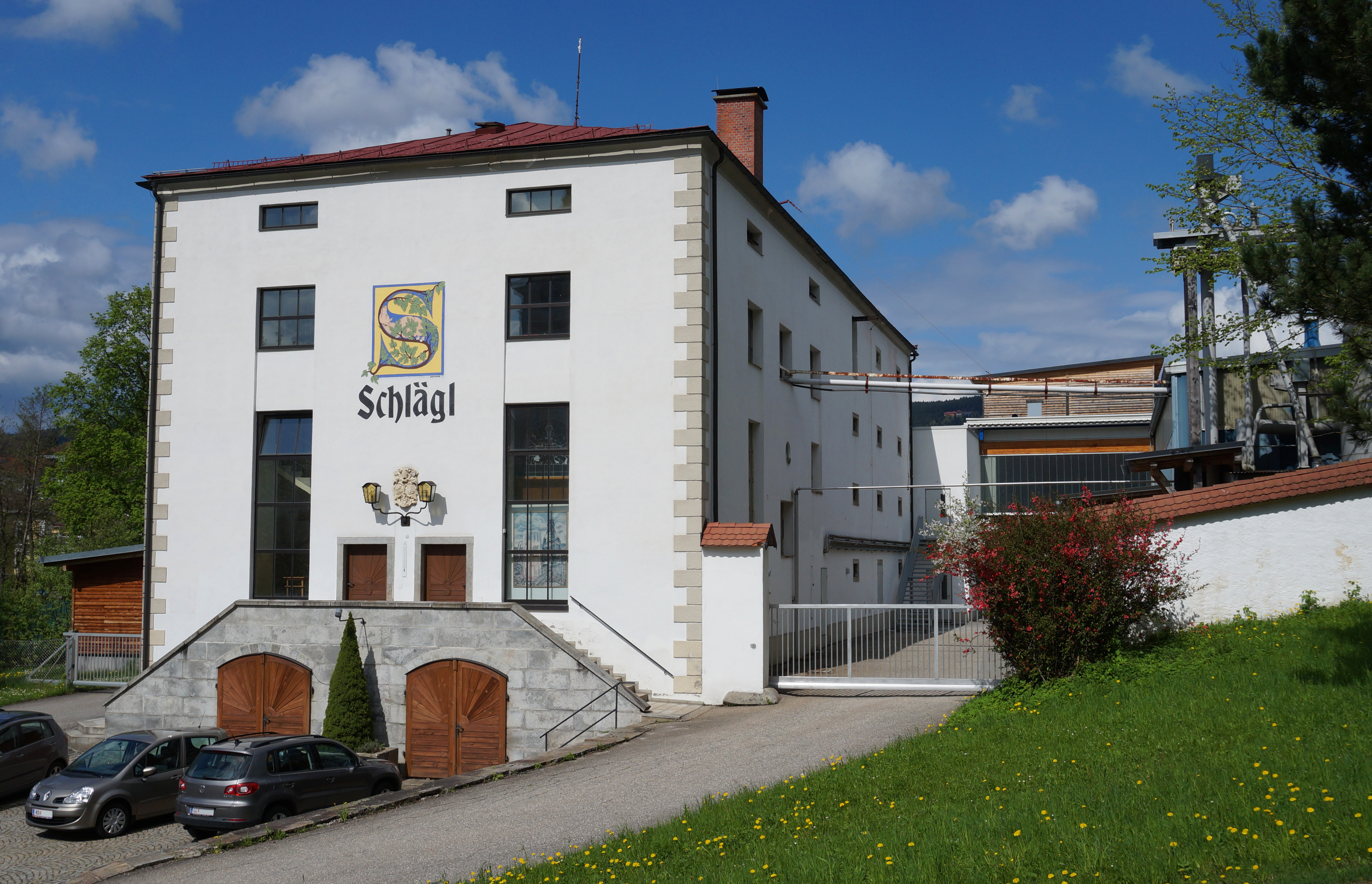 The Brewery of Stift Schlägl viewed from south.